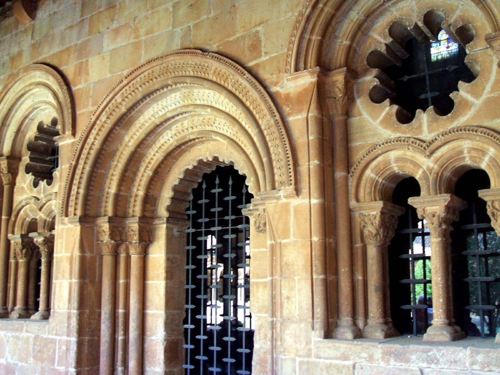 Portada románica, desde el claustro, a la antigua sala capitular de la Concatedral de San Pedro de Soria (Castilla y León, España)